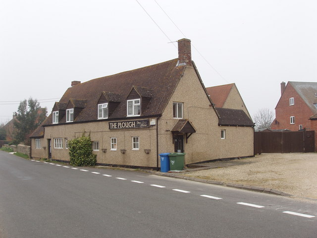 The Plough, Merton Closed when I walked by on a Tuesday lunchtime, or I would have stopped for a drink.